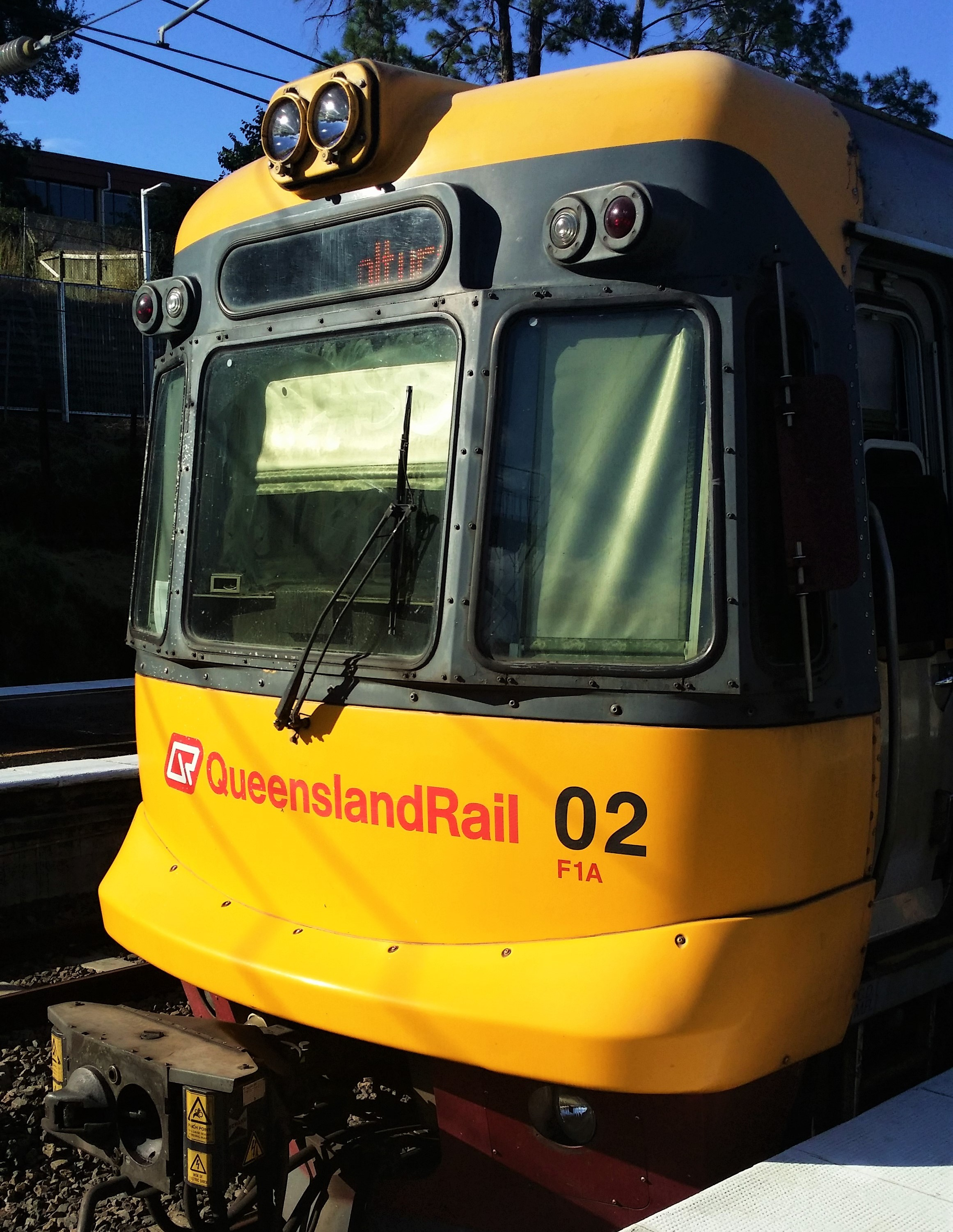 Queensland Rail EMU02